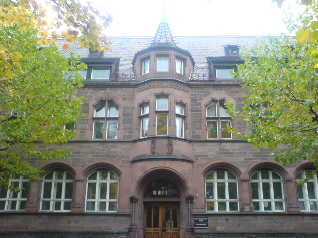 The Institute for Medical Ethics and History of Medicine and Institute for Biostatistics and Medical Informatics, University of Freiburg, Freiburg, Germany